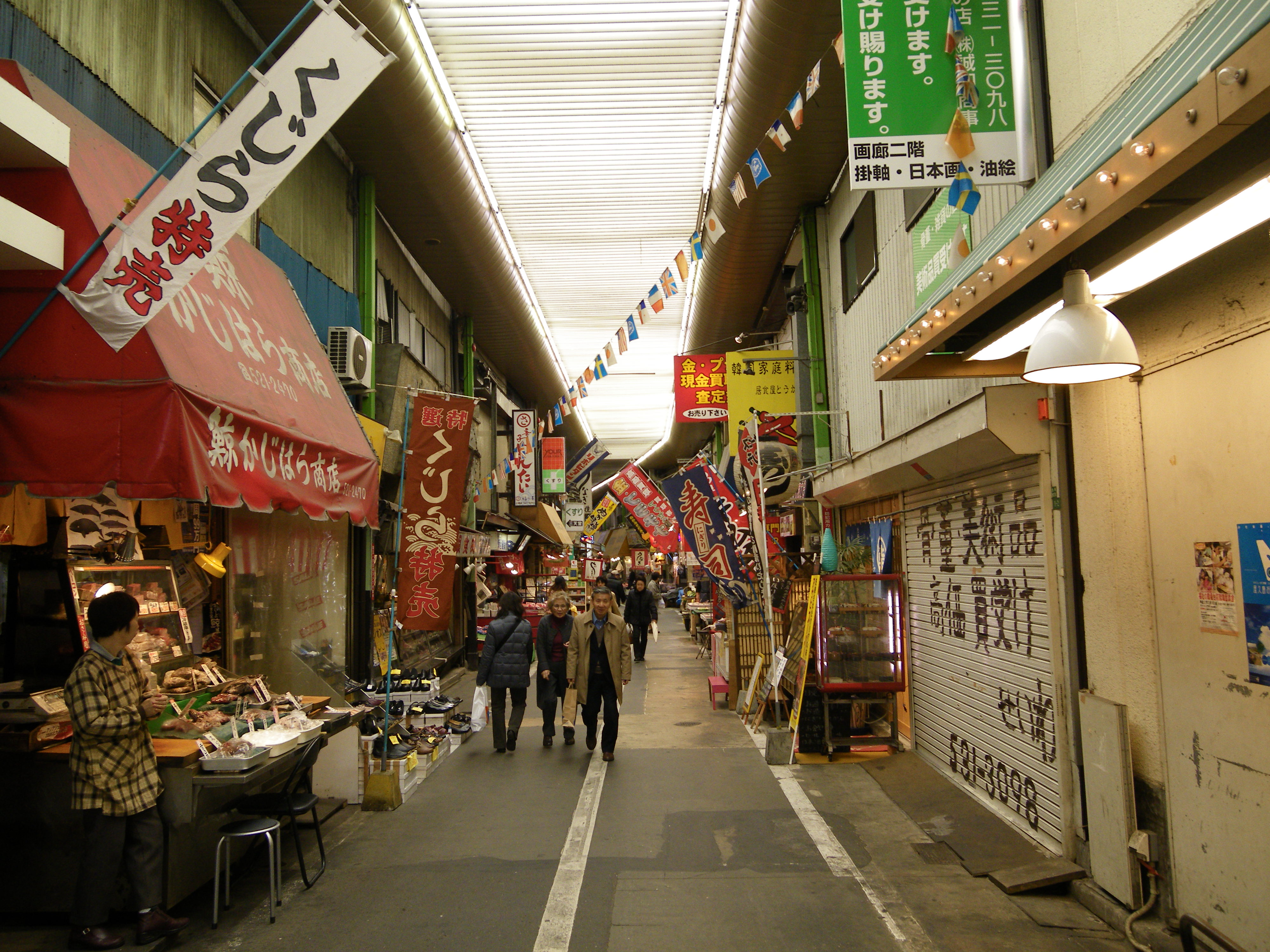 Tanga Ichiba (The market in Kitakyushu)